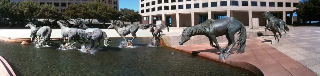 Bronze mustang sculpture at Carpenter Square in Las Colinas, Texas, USA — Mustangs at Las Colinas. Wide aspect photo, camera angle — left back.